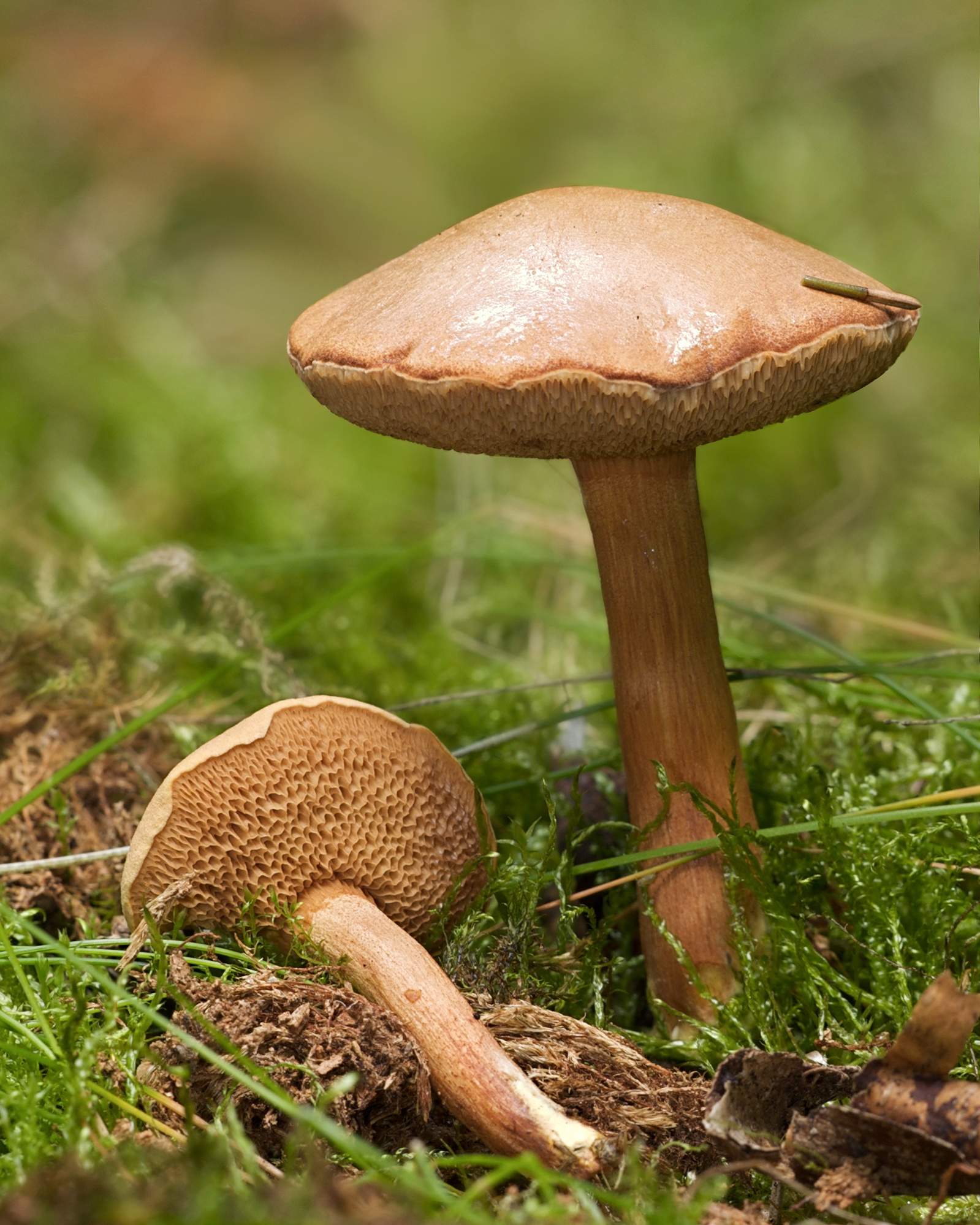 Peppery Bolete (Chalciporus piperatus), Falkenau, Germany